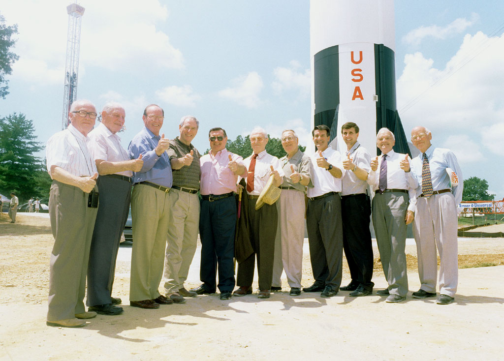 Members of the original Von Braun German rocket team participate in the Saturn V replica dedication ceremony at the U. S. Space and Rocket Center in Huntsville, AL. Pictured are (L/R): Walter Jacobi, Konrad Dannenberg, Apollo 14's Edgar Mitchell, NASA Administrator Dan Goldin, Apollo 12's Dick Gordon, Gerhard Reisig, Werner Dahm, MSFC Director Art Stephenson, Director of the U. S. Space and Rocket Center Mike Wing, Walter Haeusserman, and Ernst Stuhlinger.